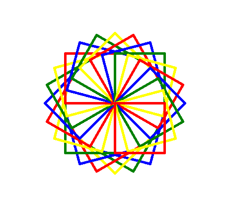 This is a pattern created by me with python program.